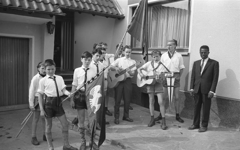 Youth of the Nerother Wandervogel, despite of the German original description they are not scouts.